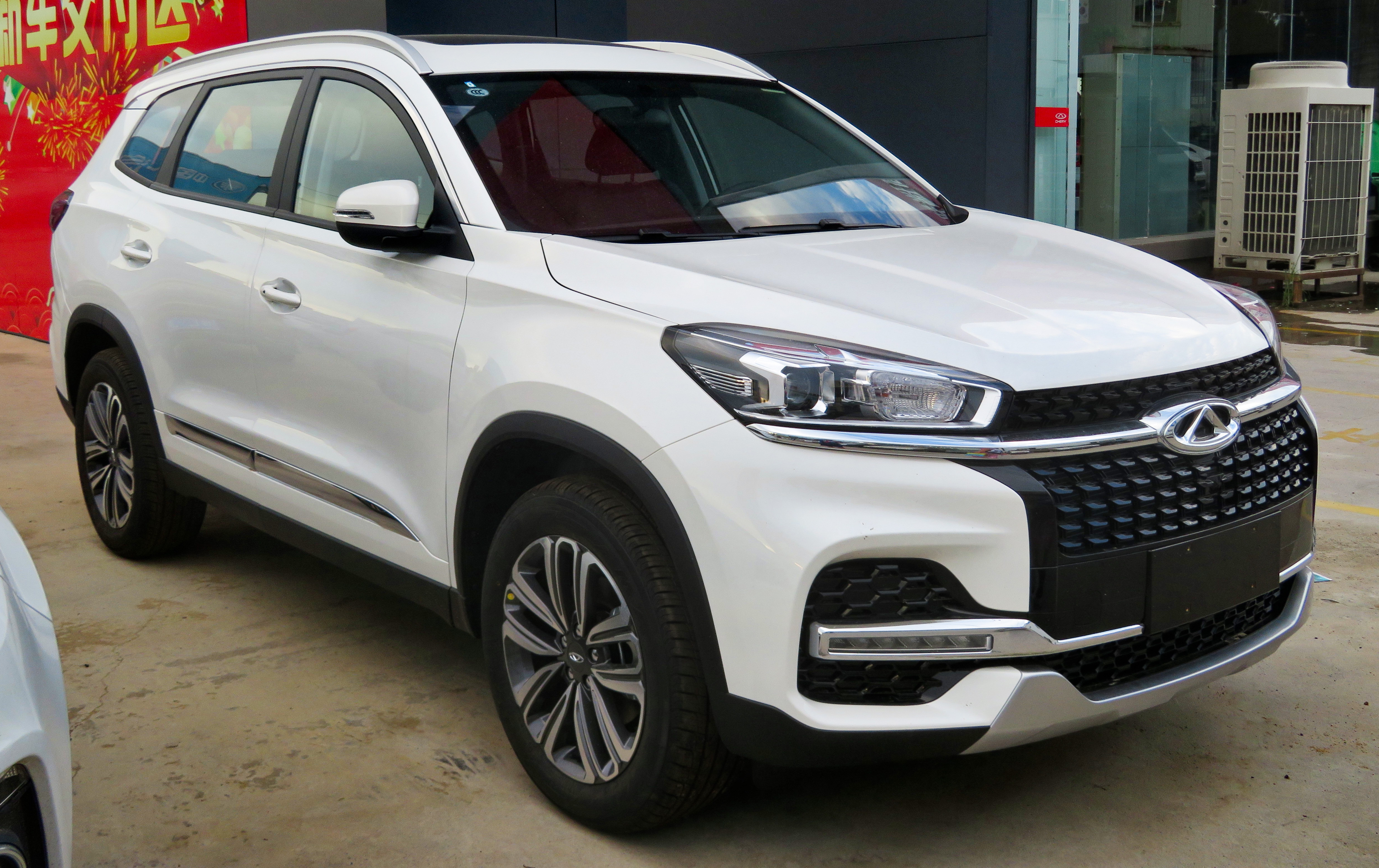 Photographed in Zhengzhou, Henan province, China